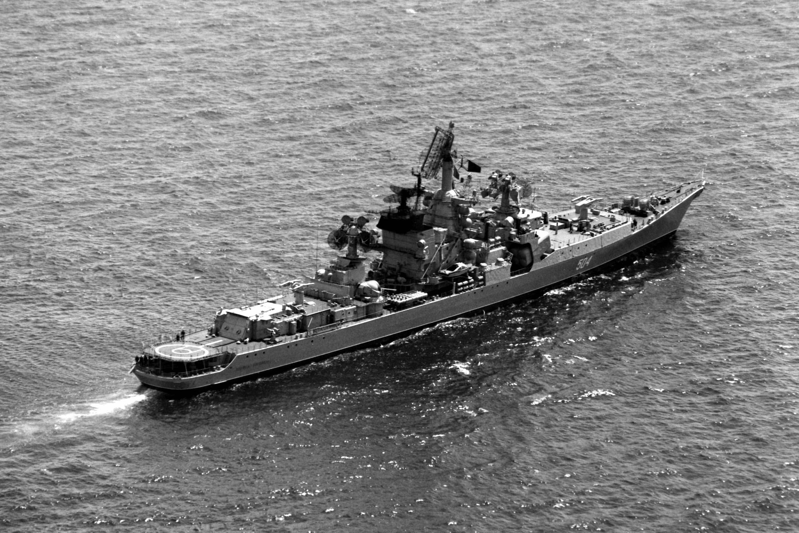 Soviet cruiser Marshal Voroshilov underway in 1990, identification by tactical number as original caption erroneously identified it as Admiral Oktyabrysky